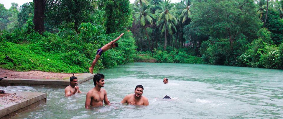 Boys of Vitla swimming in Kotikere in Mansoon